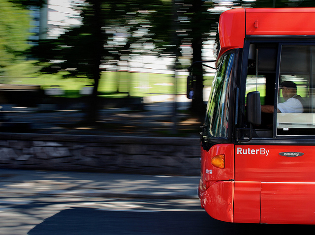 Author: alfstorm Source: Flickr URL: (Flickr) Time taken: July 24, 2010 Uploader: Fiskepinner Description: Front of the buses running in the Oslo district which are red. Uploaded on: 1.12.2010